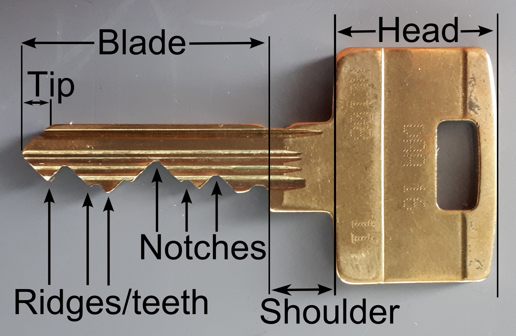 Components of a key.